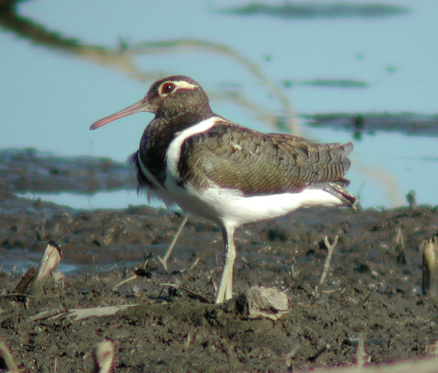 Australian Painted-snipe Rostratula australis Female Samsonvale, SE Queensland, Australia